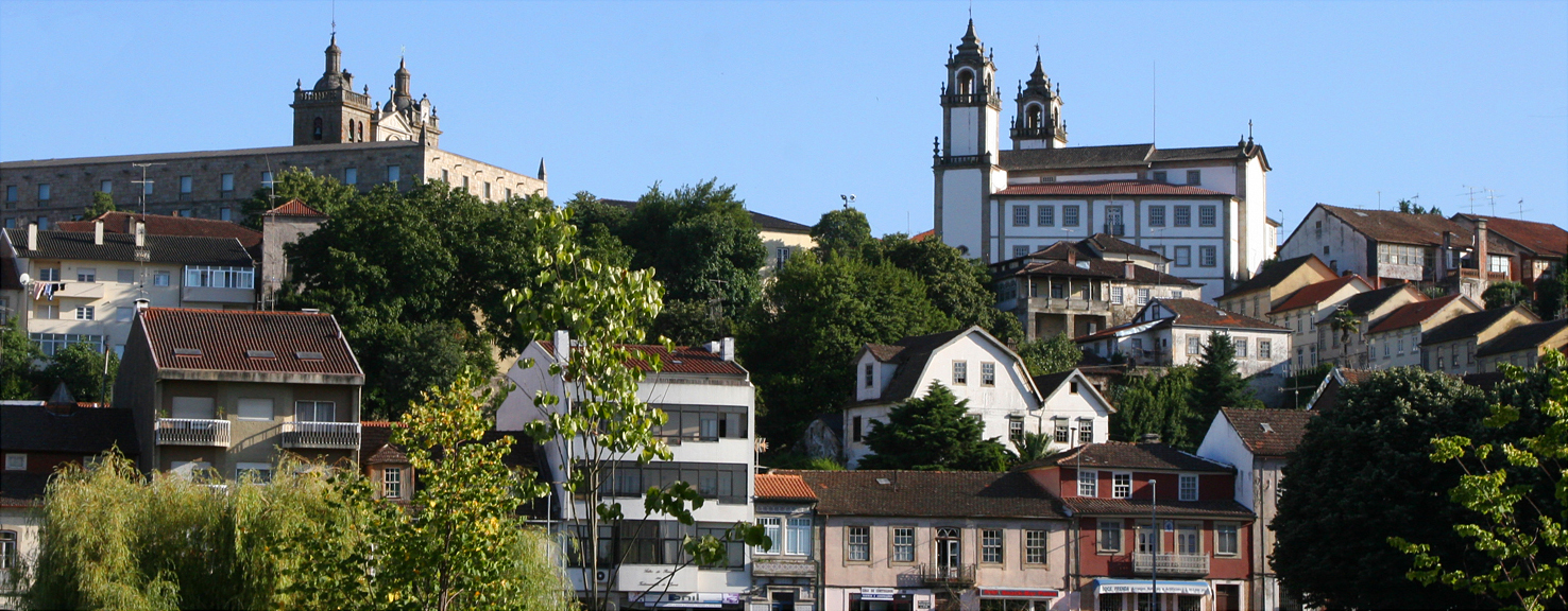 View of Viseu, Portugal